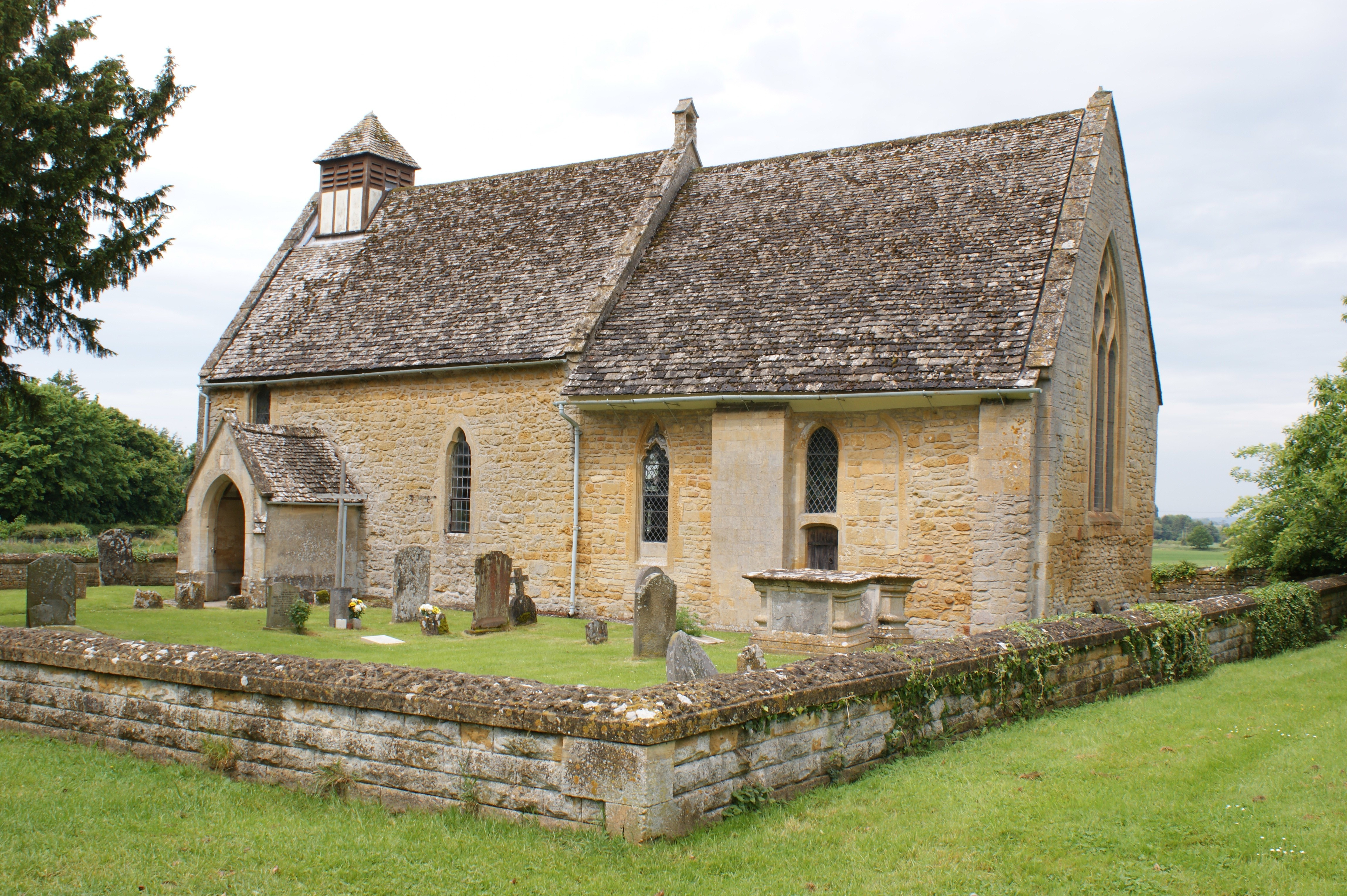 The Norman (1139-51) Haile Church (dedication unknown), 06/13. The small turret and porch are Victorian.